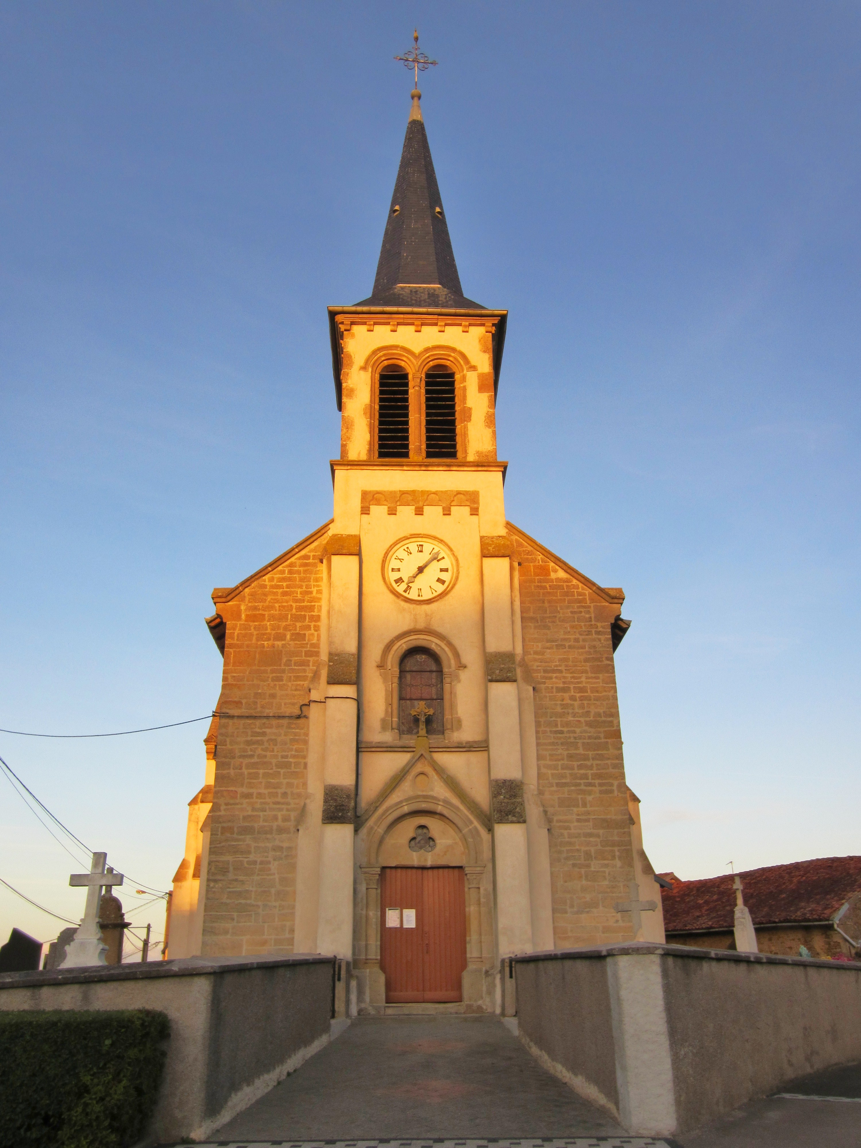 Description eglise Thumereville eglise Thumereville